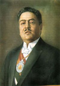 EX presidente Bautista saavedra